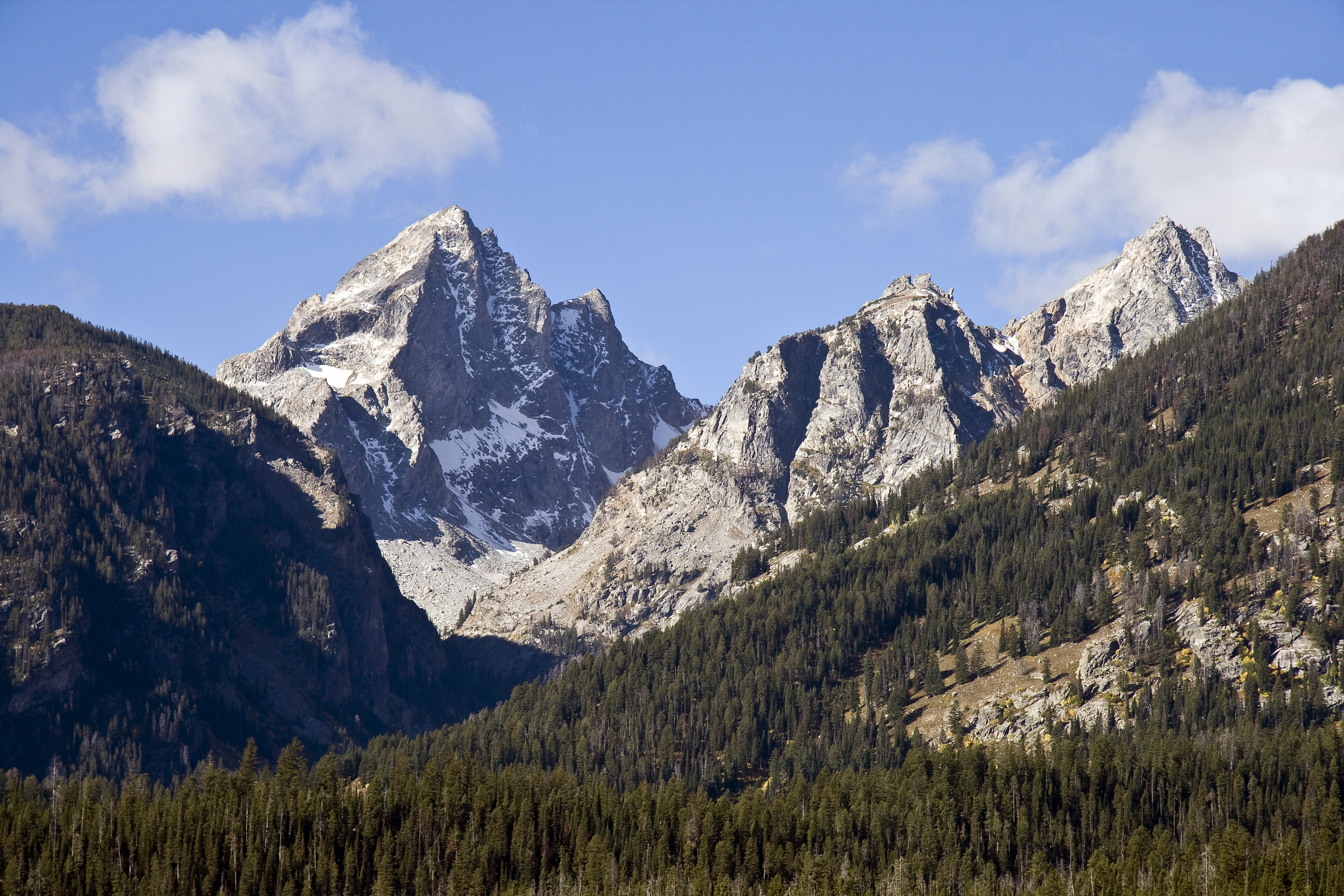 South fork of Avalanche Canyon in Grand Teton National Park from the area of the Climbers' Ranch. Peaks are Buck Mountain at left and Mount Wister at right